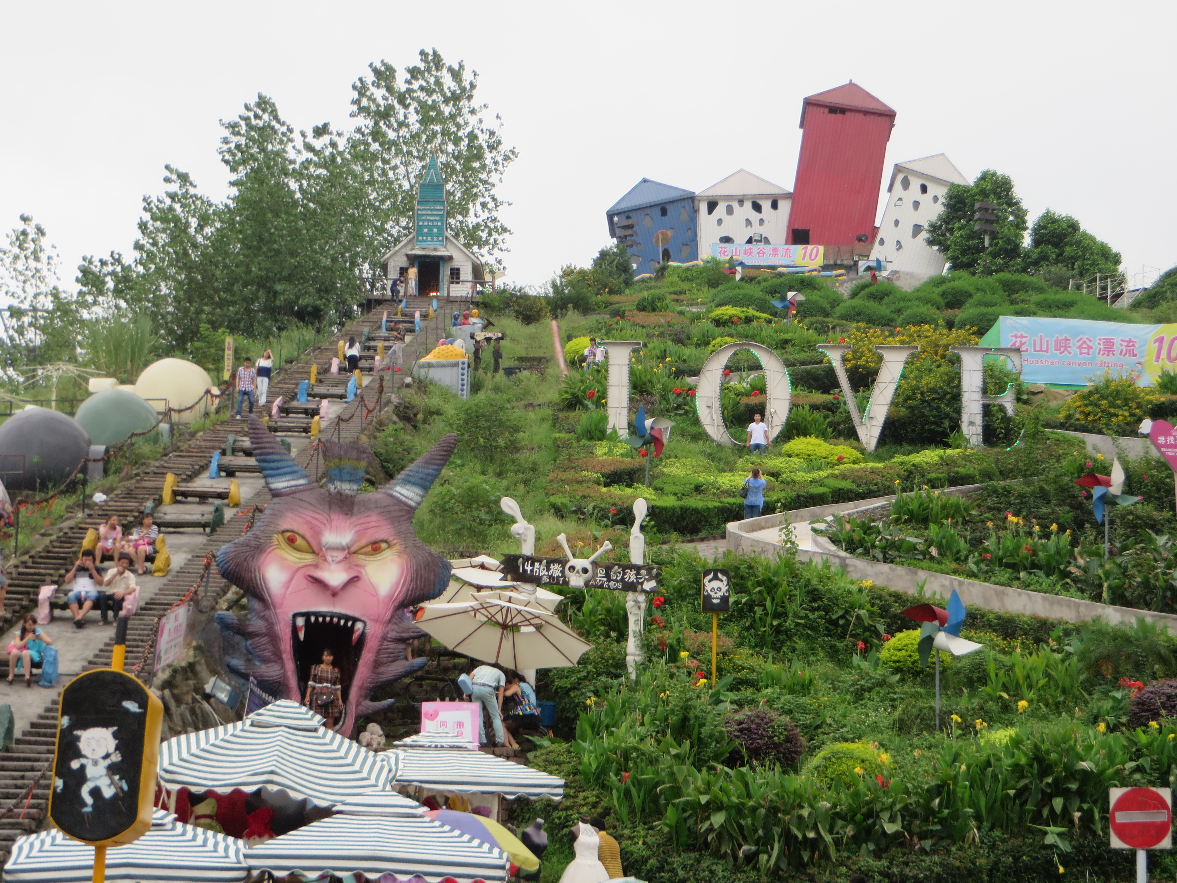 "Love" hillside at Foreigners' Street, Chongqing, China.